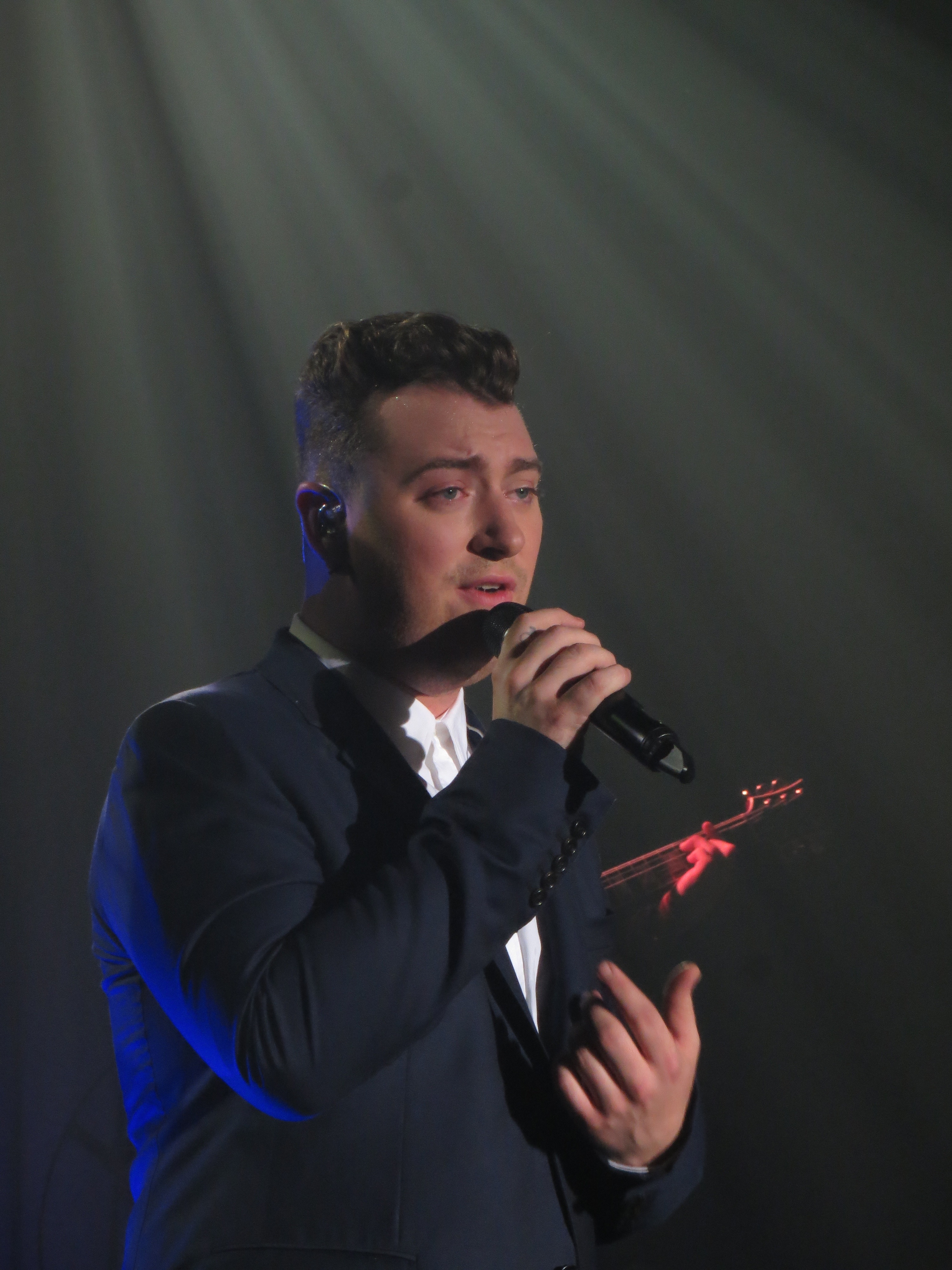 Sam Smith 2